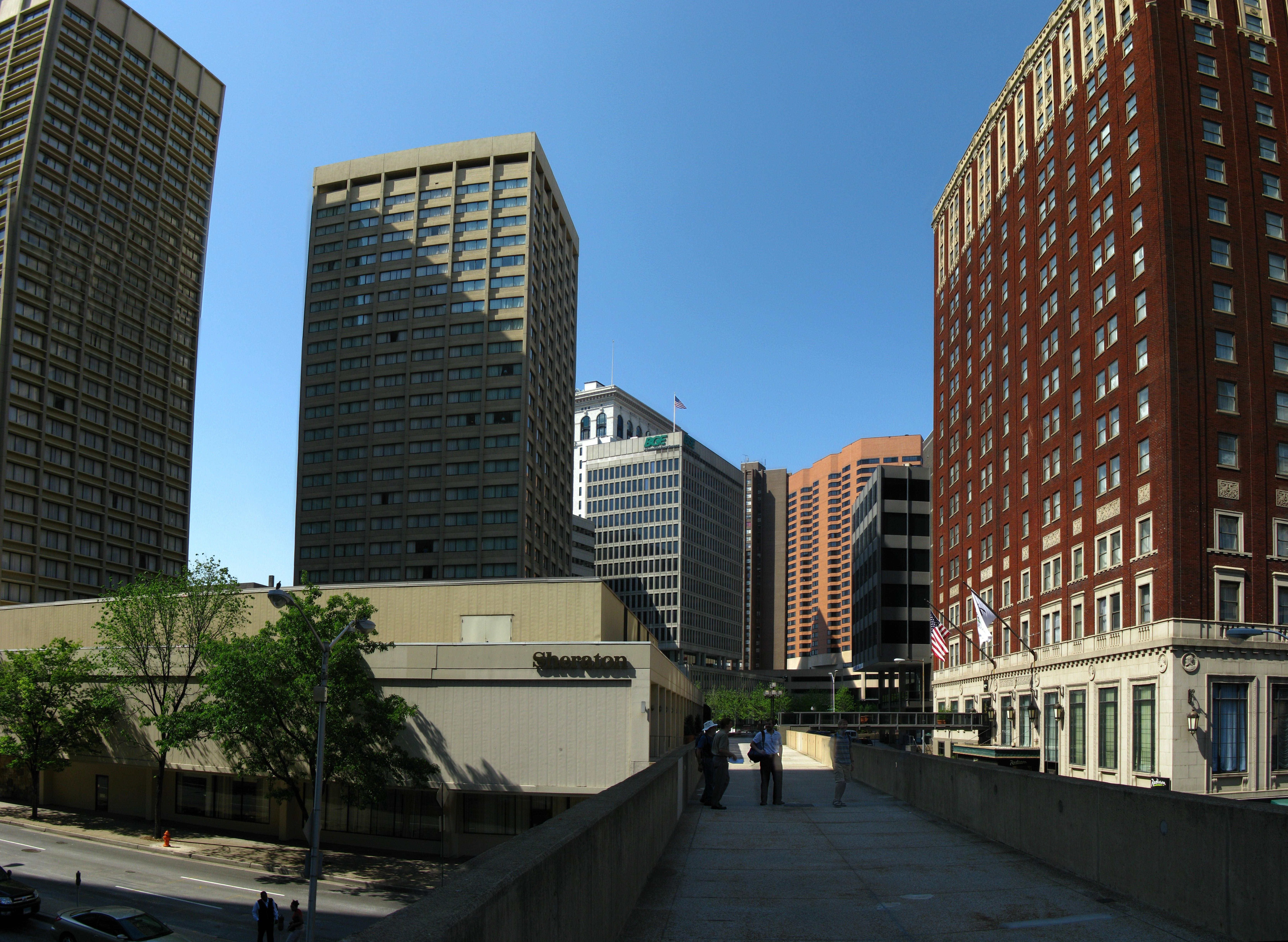 View above Hanover Street, Baltimore, Maryland.